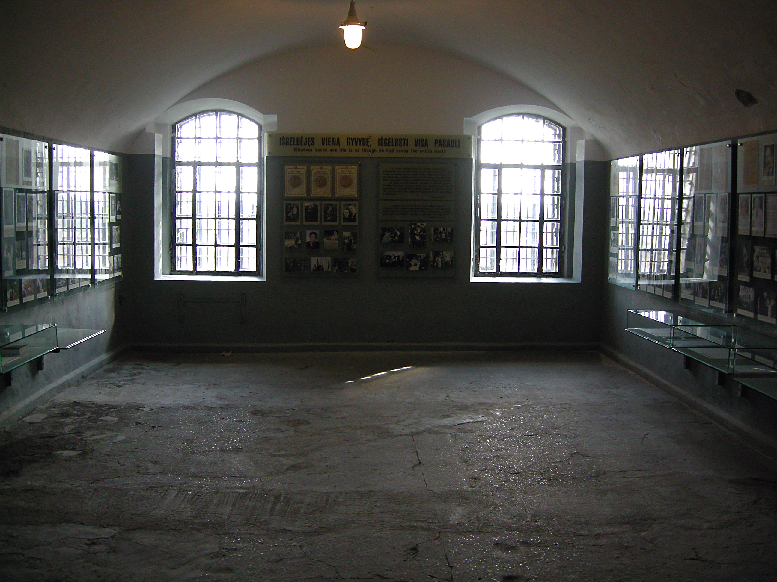 Exposition in Ninth Fort, part of the Kaunas Fortress.